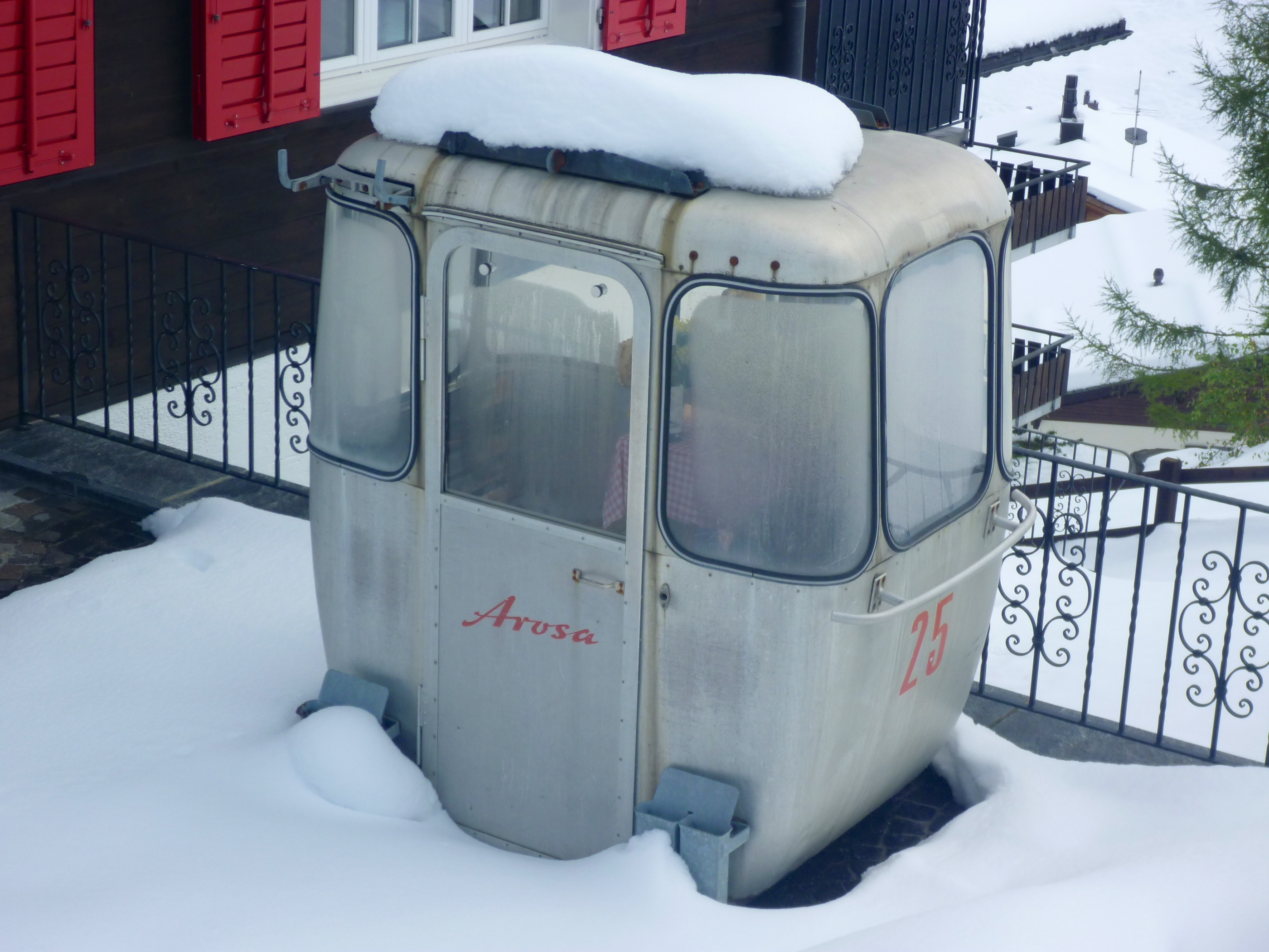 Gondola of former gondola lift Arosa-Hörnli (in use 1963-1987), built by Bell/Switzerland